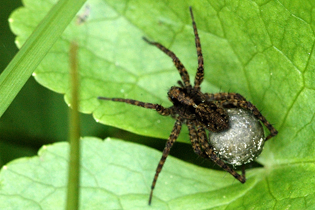 female Pardosa amentata with egg sac, from Commanster, Belgian High Ardennes .